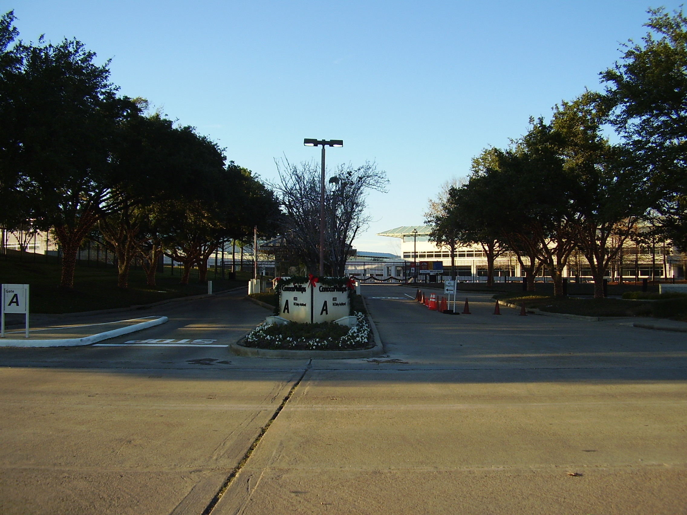 Headquarters of ConocoPhillips in the Energy Corridor - Formerly known as Conoco Center and formerly the headquarters of Conoco, Inc.